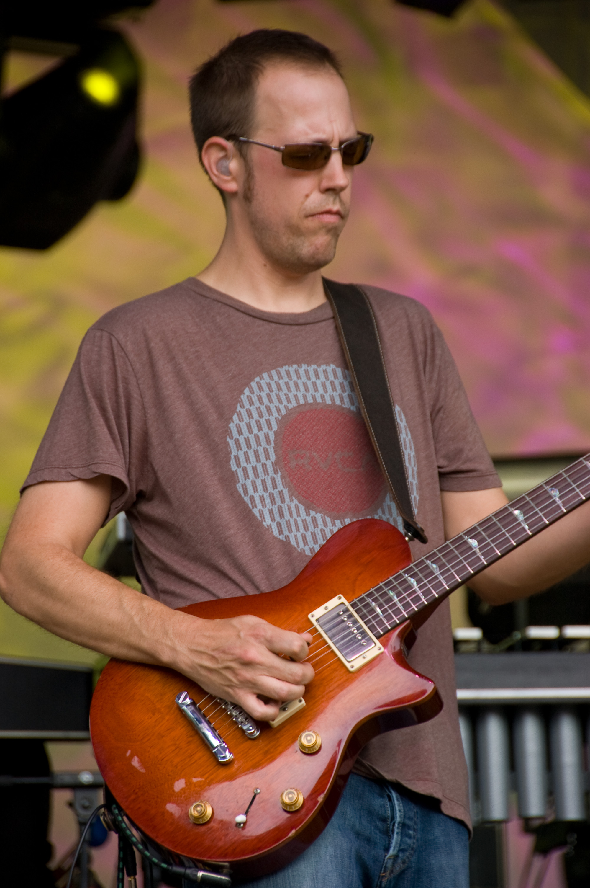 Chuck Garvey performing with moe. at Summercamp on 25 May 2008; Image taken at Three Sisters Park near Chillicothe, Illinois, United States